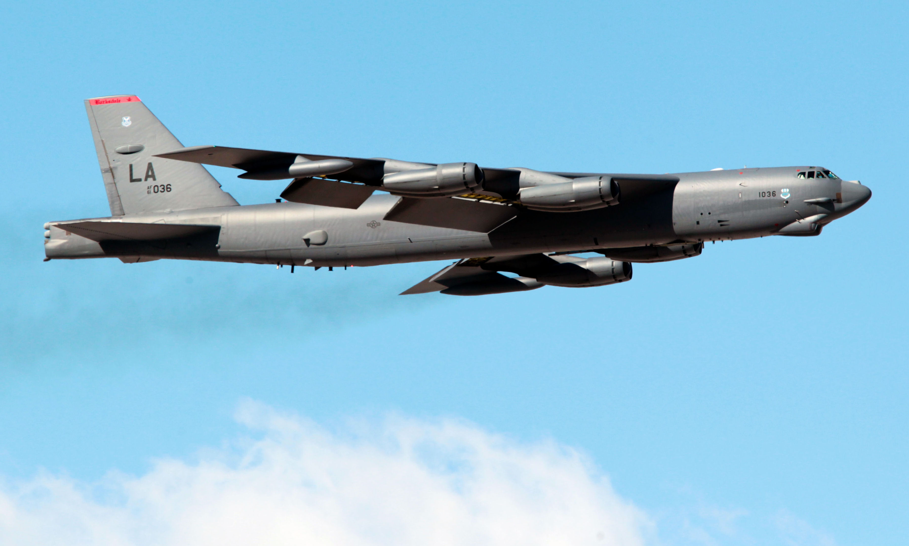 2d Bomb Wing - Boeing B-52H-175-BW Stratofortress 61-0036 from the 96th Bomb Squadron, Barksdale Air Force Base, La., flies a sortie Feb. 1 during Exercise Red Flag at Nellis AFB, Nev. The purpose of Exercise Red Flag is to train pilots from the U.S., NATO and other allied countries for realistic combat scenarios. This includes the use of live ammunition for bombing exercises within the Nevada Test and Training Range. (U.S. Air Force photo by Kevin Cox)